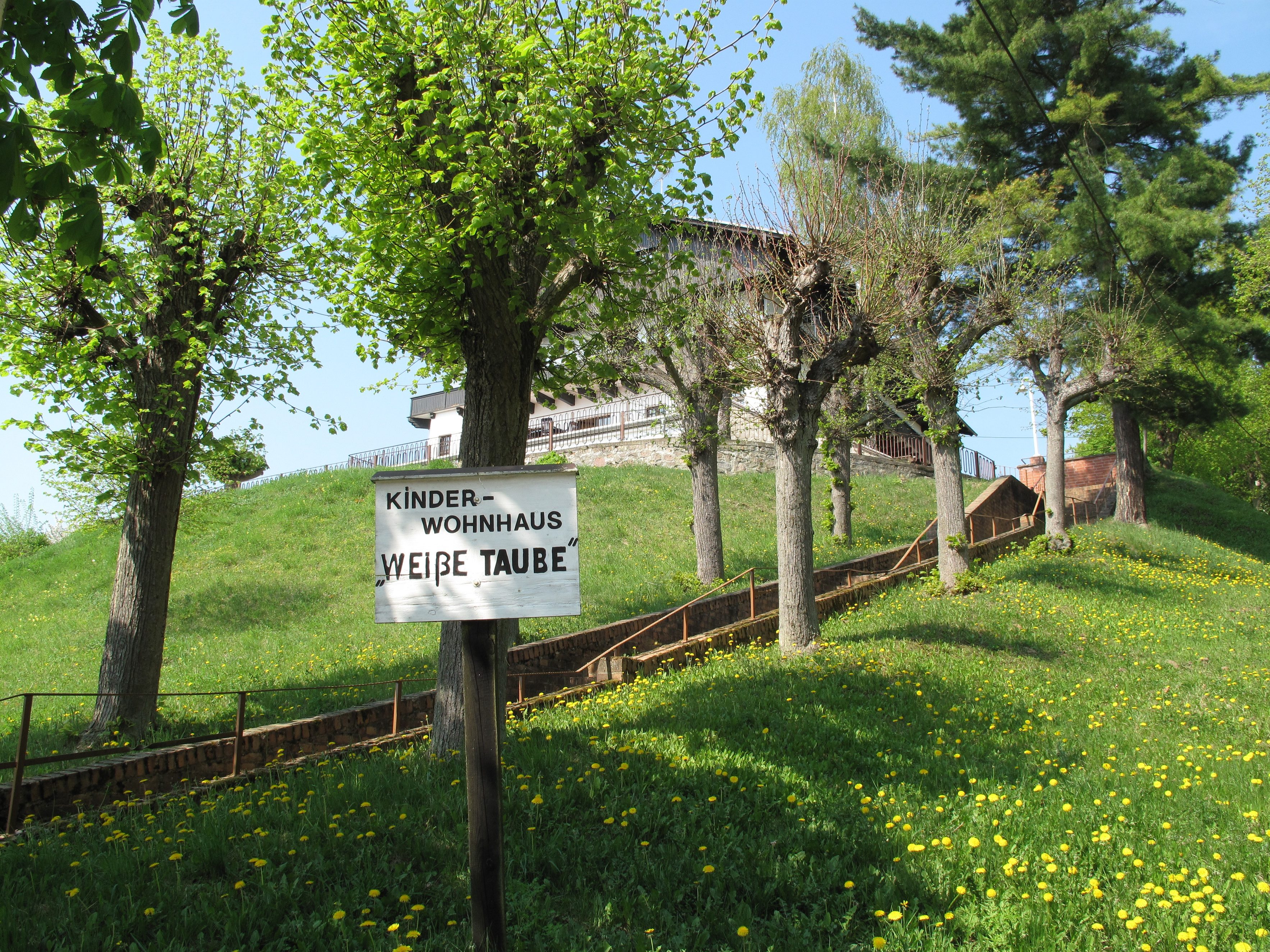 The Panoramaweg is a part of the approximately 7,5 kilometres long walking path around the Schermützelsee. The Schermützelsee is a lake in Buckow, District Märkisch-Oderland, Brandenburg, Germany. The lake covers 137 hectare and is the largest water in the hill country „Märkische Schweiz“ and in the Märkische Schweiz Nature Park.